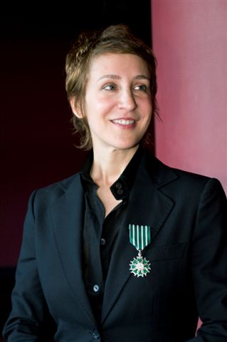 Stacey Kent receives 'The National Order of Arts and Letters' from French Minister of Culture